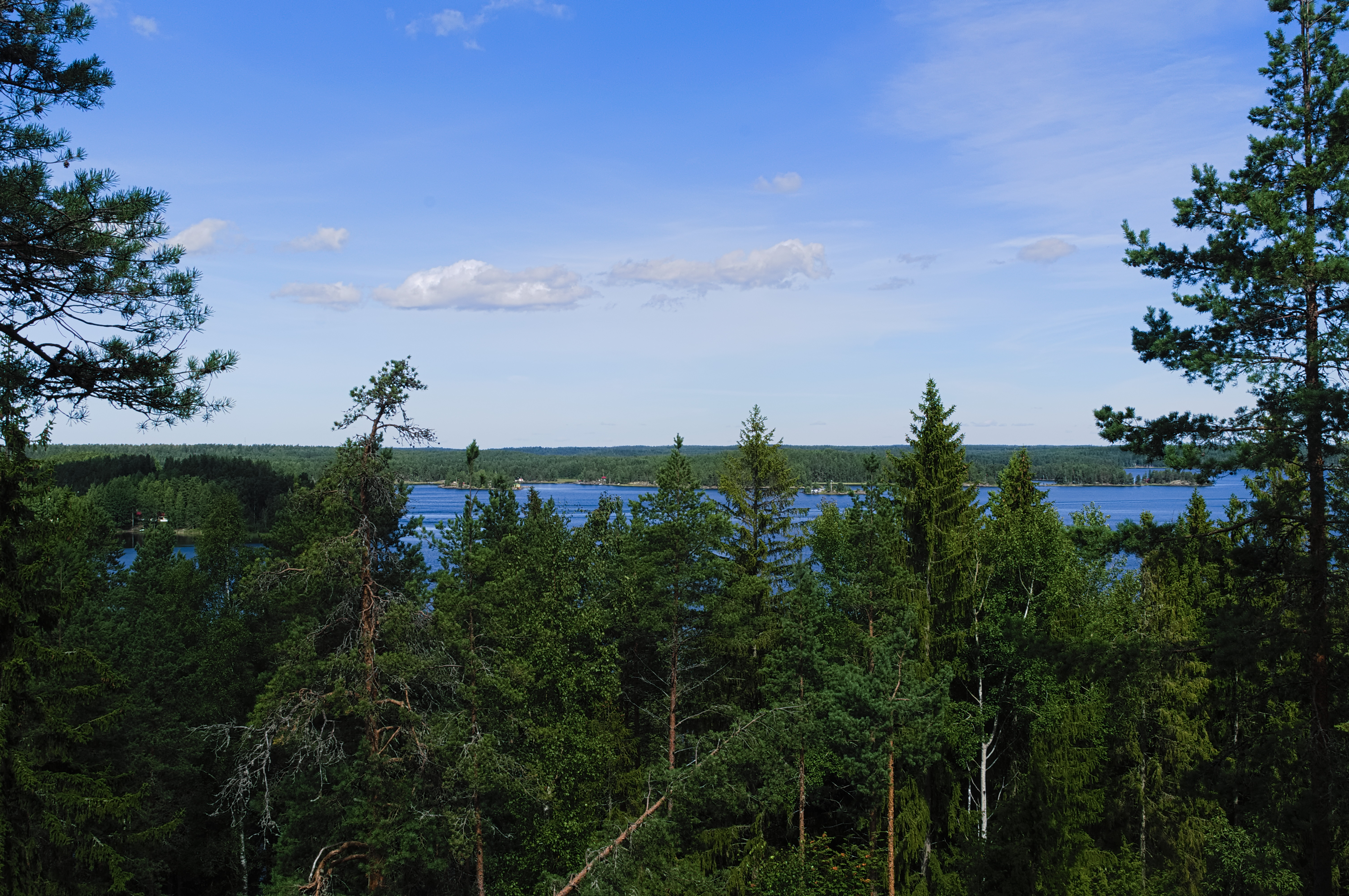 View from Kuivaketvele Hillfort